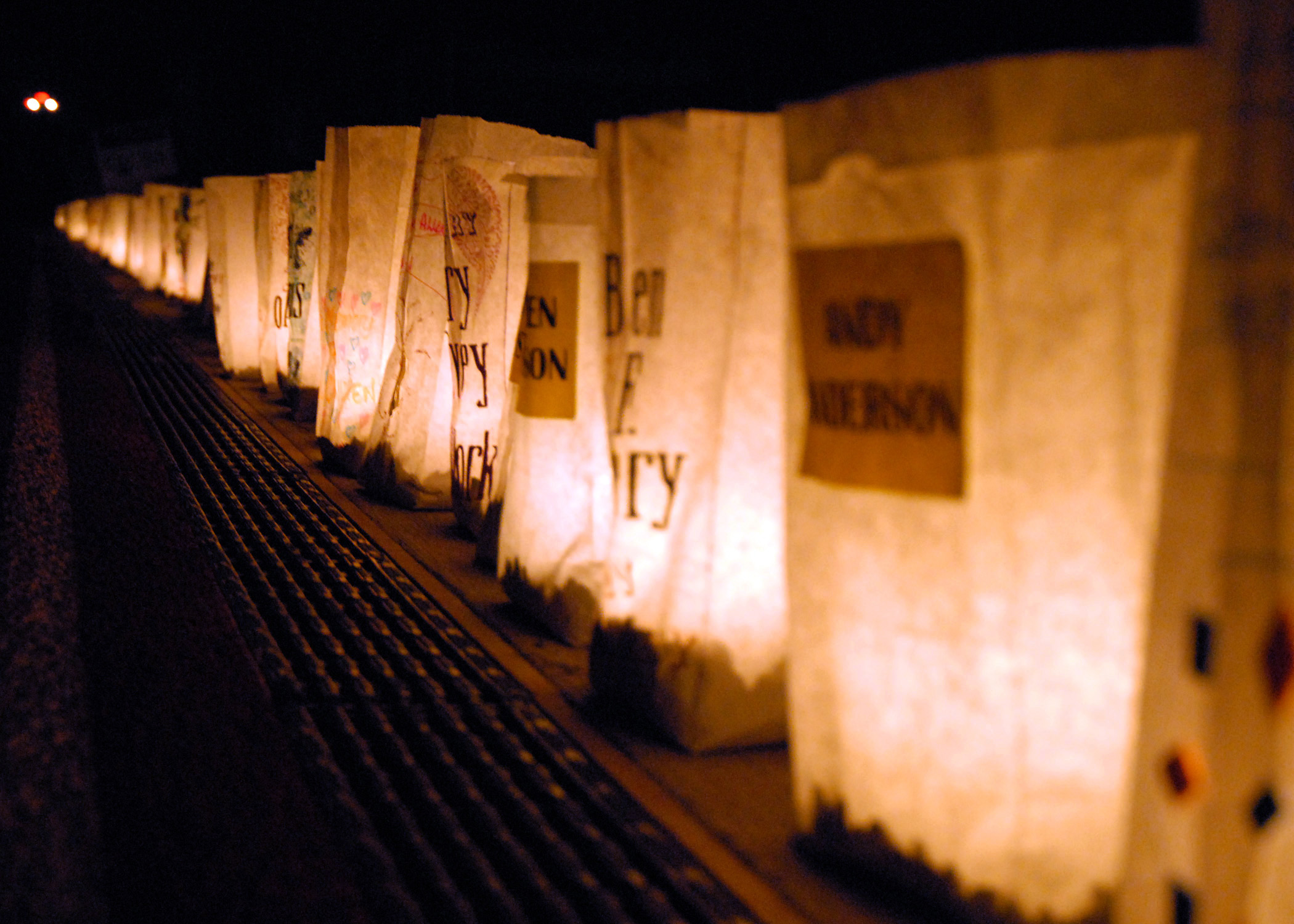 OAK HARBOR, Wash. (June 6, 2008) Luminaries line the Oak Harbor Middle School track for the Relay For Life of North Whidbey. Relay For Life is a fundraiser held by the American Cancer Society to raise money for cancer research and to promote cancer awareness. U.S. Navy photo by Mass Communication Specialist 2nd Class Tucker M. Yates (Released)